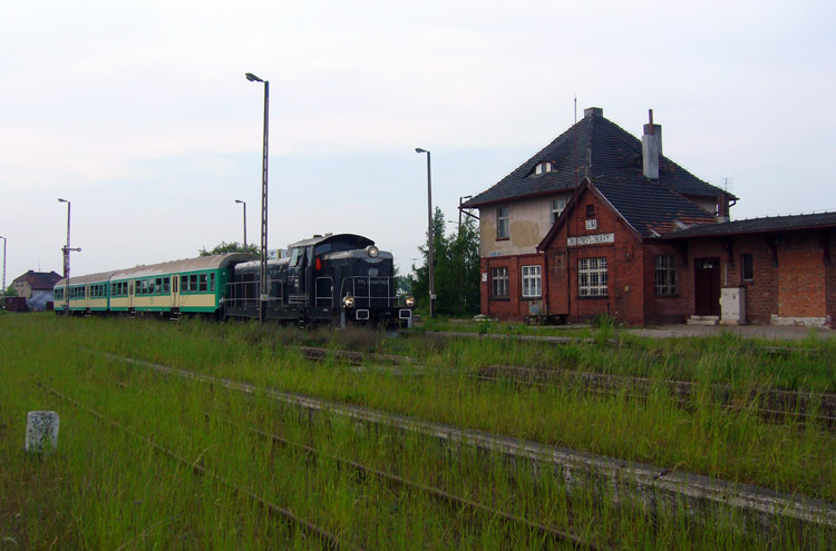 Gniezno Winiary